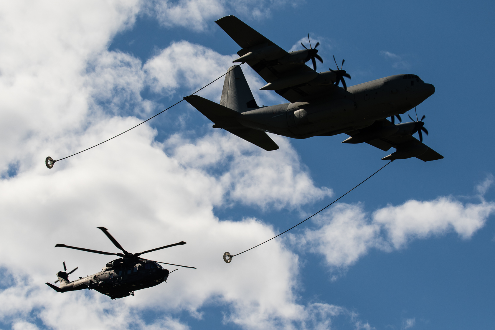 KC-130 and AgustaWestland HH-101A Caesar (Mk611) MM81864 / 15-01 (cn 50257/CSAR01)